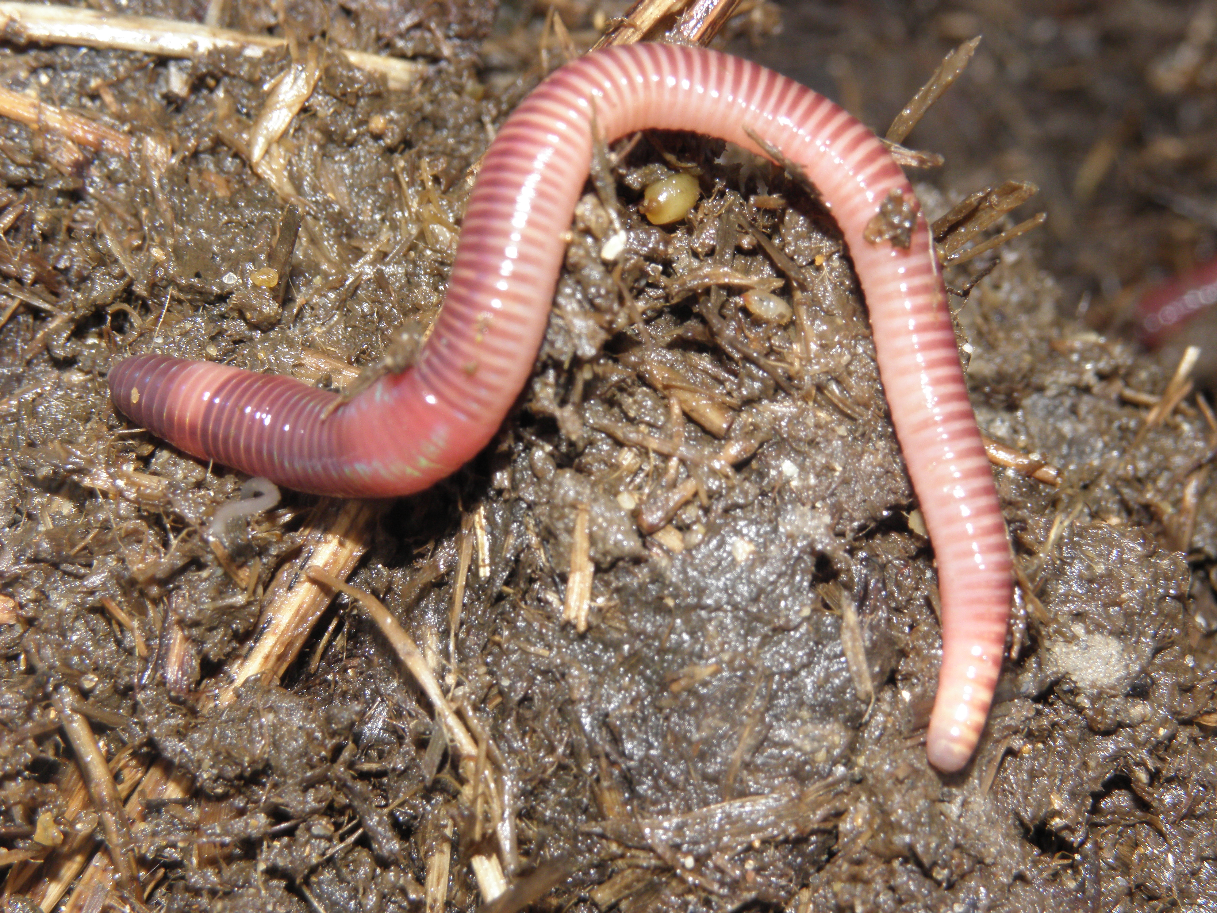 redworm